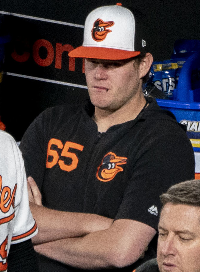 Chris Davis and Baltimore Orioles teammates in the dugout during a 2019 game at Camden Yards in Baltimore